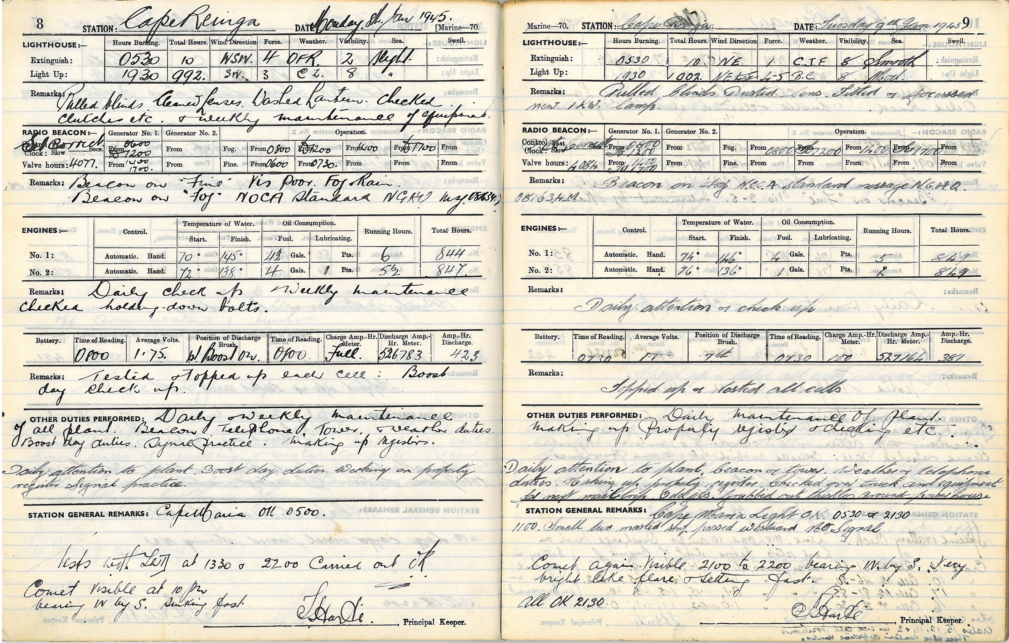 On January 8 1945 a comet was sighted at Cape Reinga, Northland, New Zealand. As noted in the Cape Reinga Lighthouse Journal, T. Harte, Principal Keeper at Cape Reinga Lighthouse remarked on 8 January 1945 "Comet visible at 10 pm - bearing W by S. sinking fast " The comet was seen again on the following day - "Comet again visible 2100 to 2200, bearing W. by S. Very bright like flare and setting fast." We have not been able to definitely identify this comet. 79P du Toit Hartley was seen from South Africa in April that year, and a Kreuz sungrazer comet was also seen in 1945. Comet 1944 IV (van Gent) was seen, also from South Africa, between 23 May 1944 and 11 August 1945. (A. Przybylski in Acta Astronomica vol 6.3, 1956). It is unlikely to have been related to the meteor reported on 2 January over Marlborough and the Wairarapa. The journals in this series were used by Cape Reinga Lighthouse keepers to record details of their daily duties. The following information is included for each day recorded:Date, name of station, lighthouse (hours burning, total hours, wind, direction, force, weather, visibility, sea, swell, remarks), radio beacon (hours of operation, remarks), engines (control, automatic or hand, temperature of water, oil consumption, running hours, total hours, remarks), battery (time of reading, average voltage, position of discharge brush, time of reading, charge amp, discharge amp, remarks), other duties performed, station general remarks. [Archives reference: ZAAP 15135/1d] For further enquiries please For updates on our On This Day series and news from Archives New Zealand, follow us on Twitter Material from Archives New Zealand